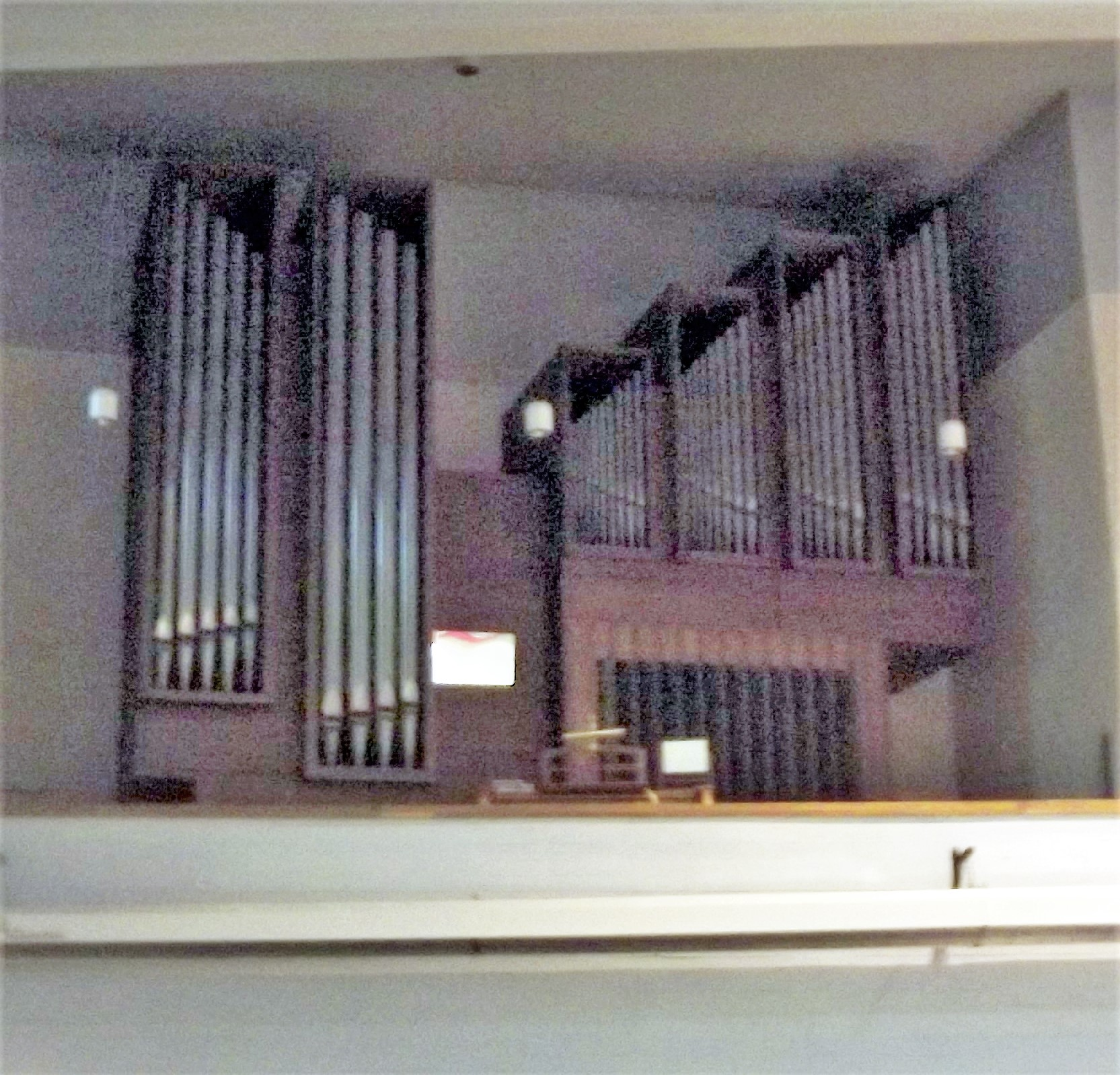 Interior of the roman catholic church in Wiesbach, Saarland